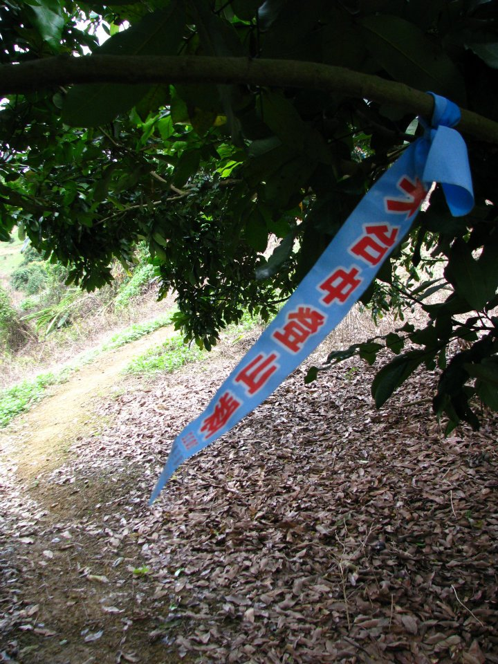 A flag marker to guide the mountain climbing in Taiwan.